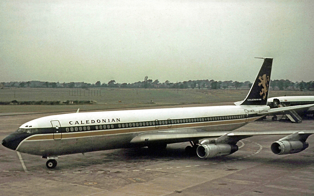 Boeing 707-349C G-AWTK of Caledonian Airways at Manchester Airport in 1969